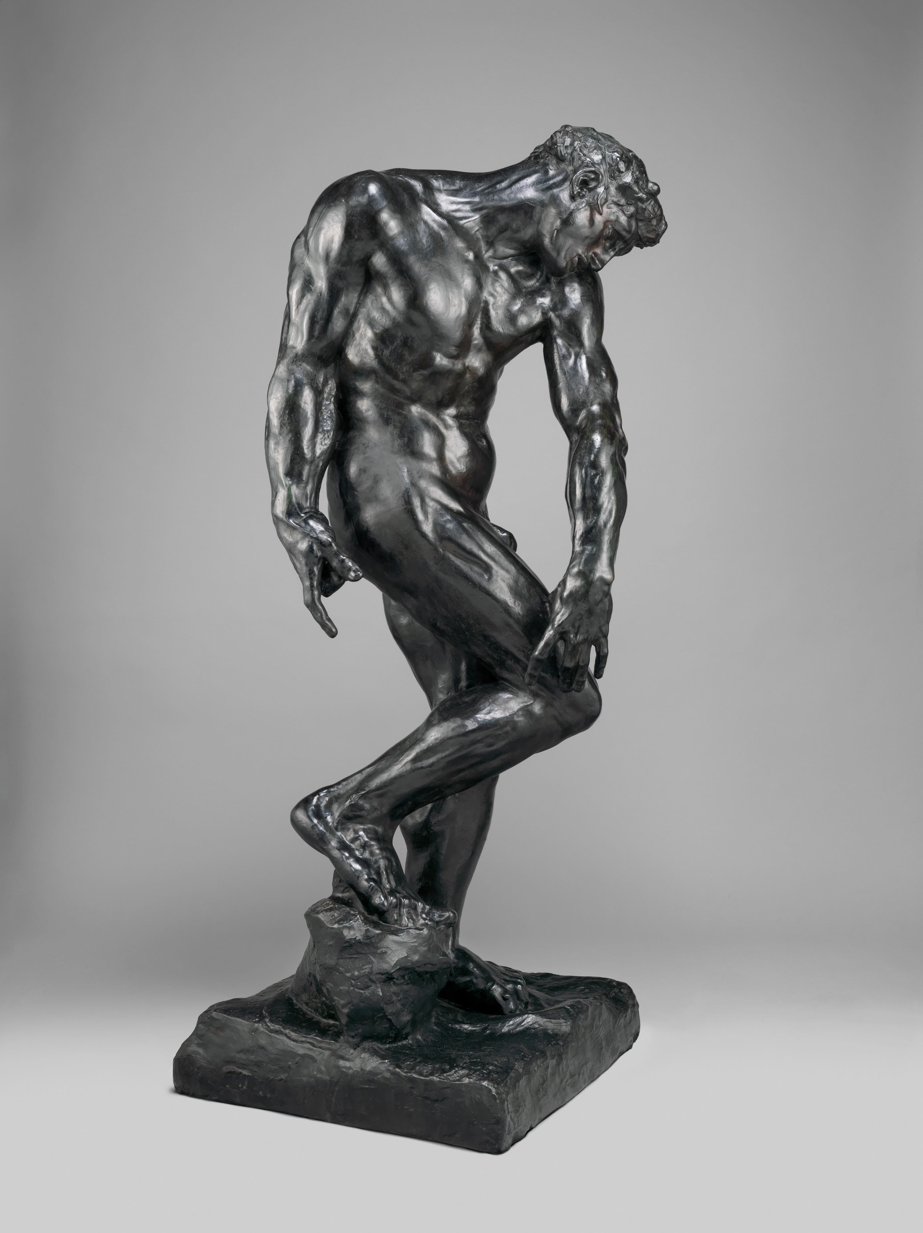 French, Paris; Statue; Sculpture-Bronze